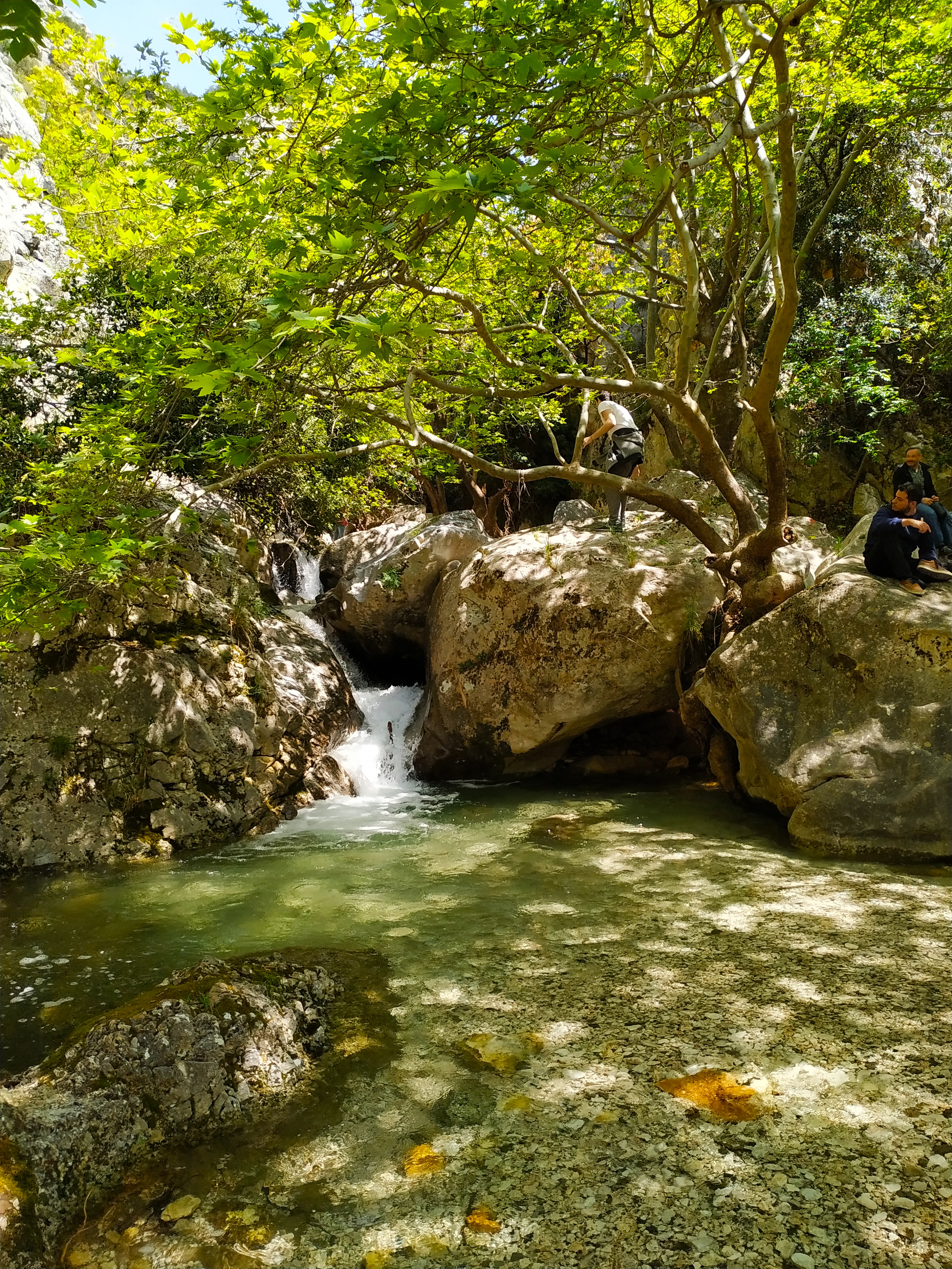 This is a photography of Natura 2000 protected area with ID GR3000001